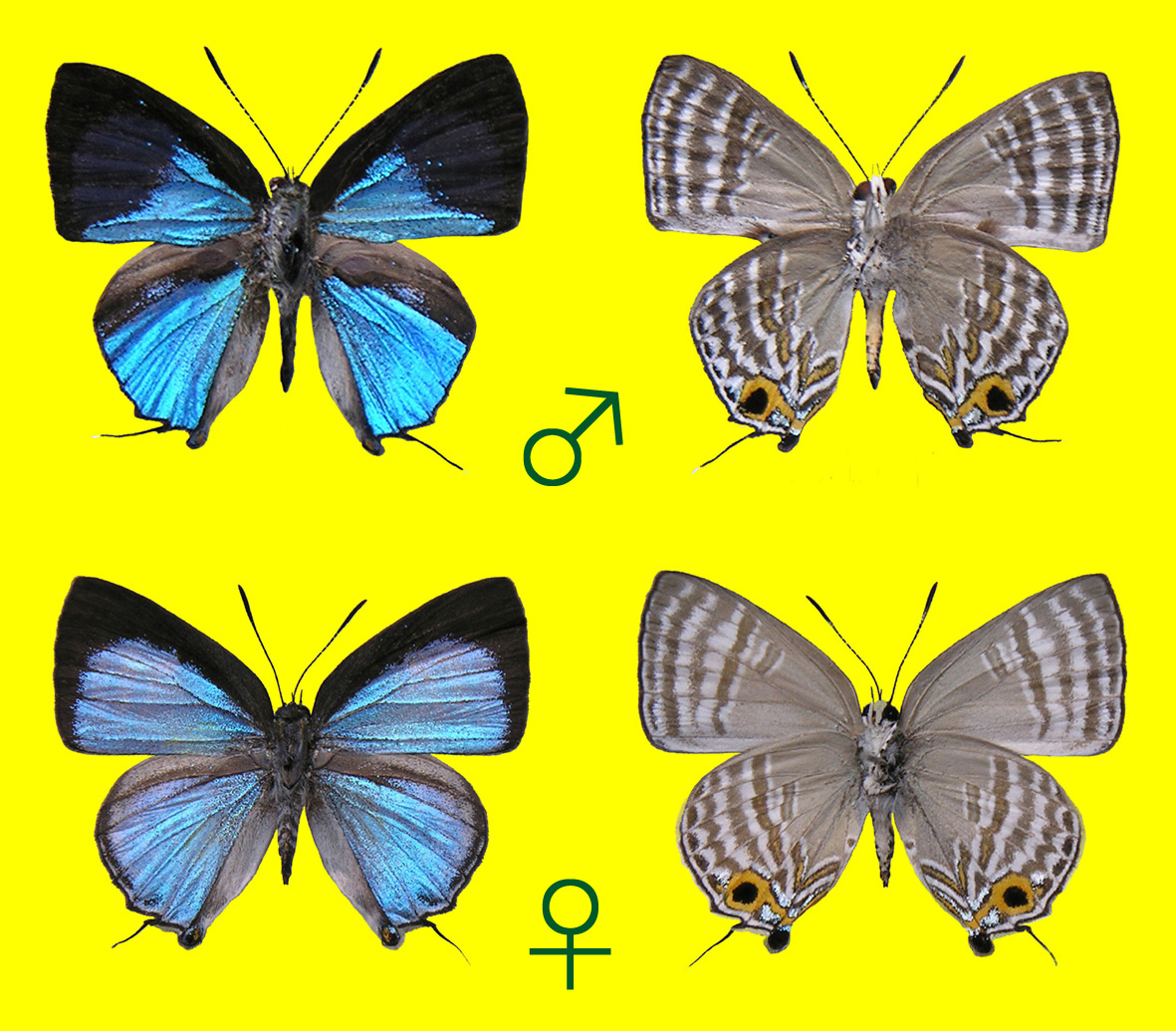 Sinthusa natsumiae, male and female